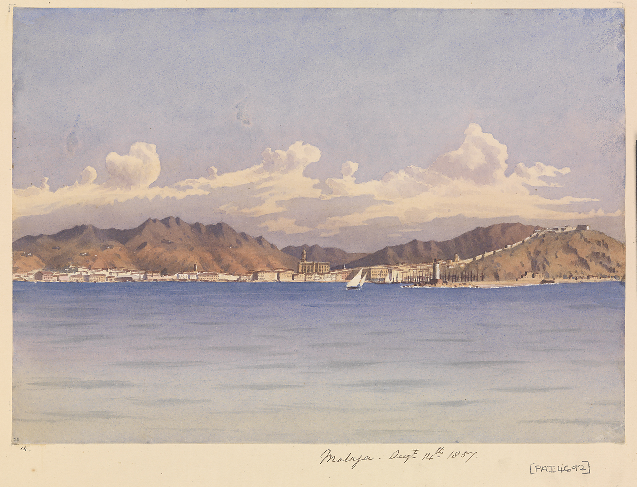 'Malaga, Augt 14th 1857' [Spain].